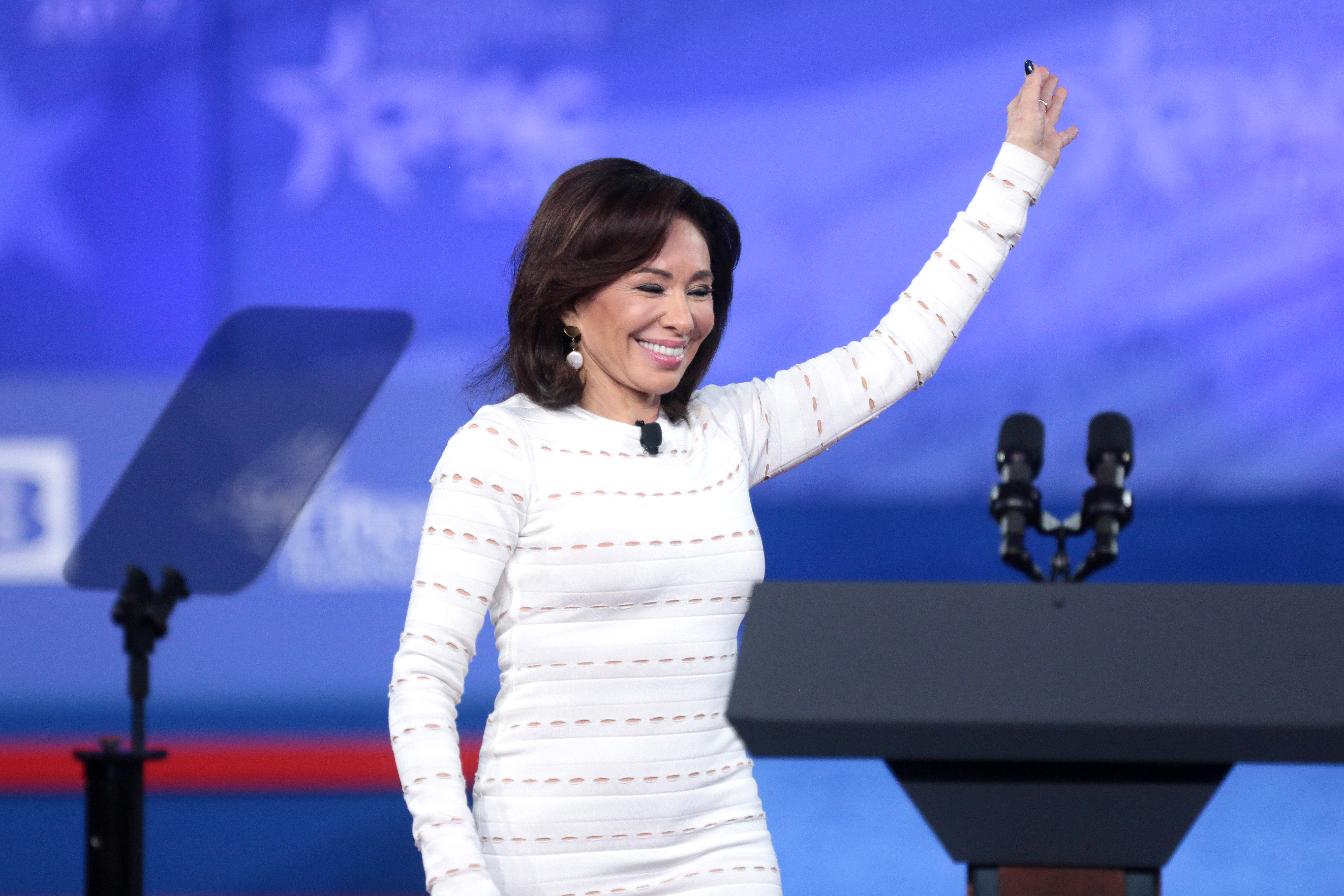 Jeanine Pirro speaking at the 2017 Conservative Political Action Conference (CPAC) in National Harbor, Maryland.